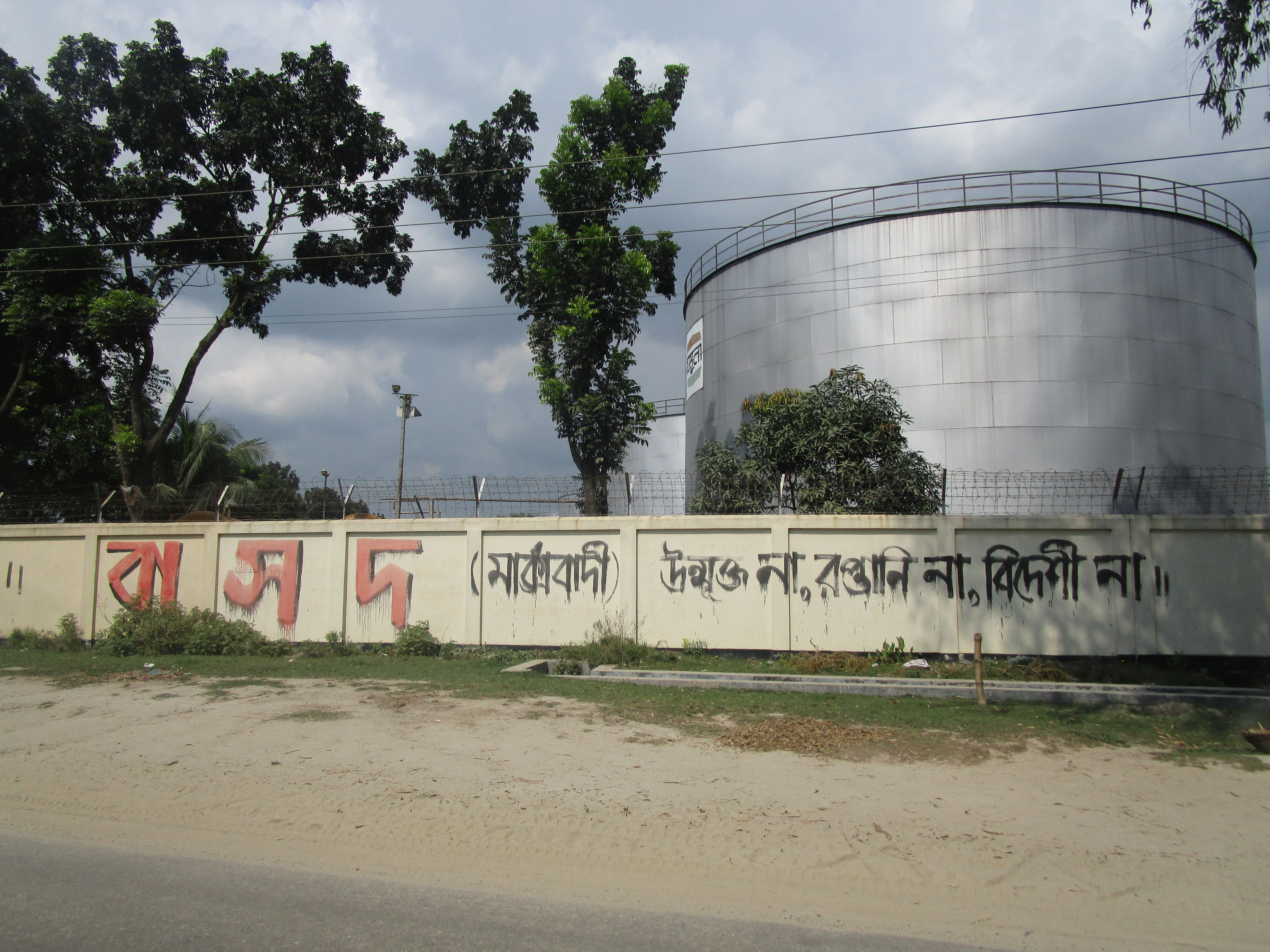 SPB Marxist wall writing on anti-coalmine movement at Parbatipur